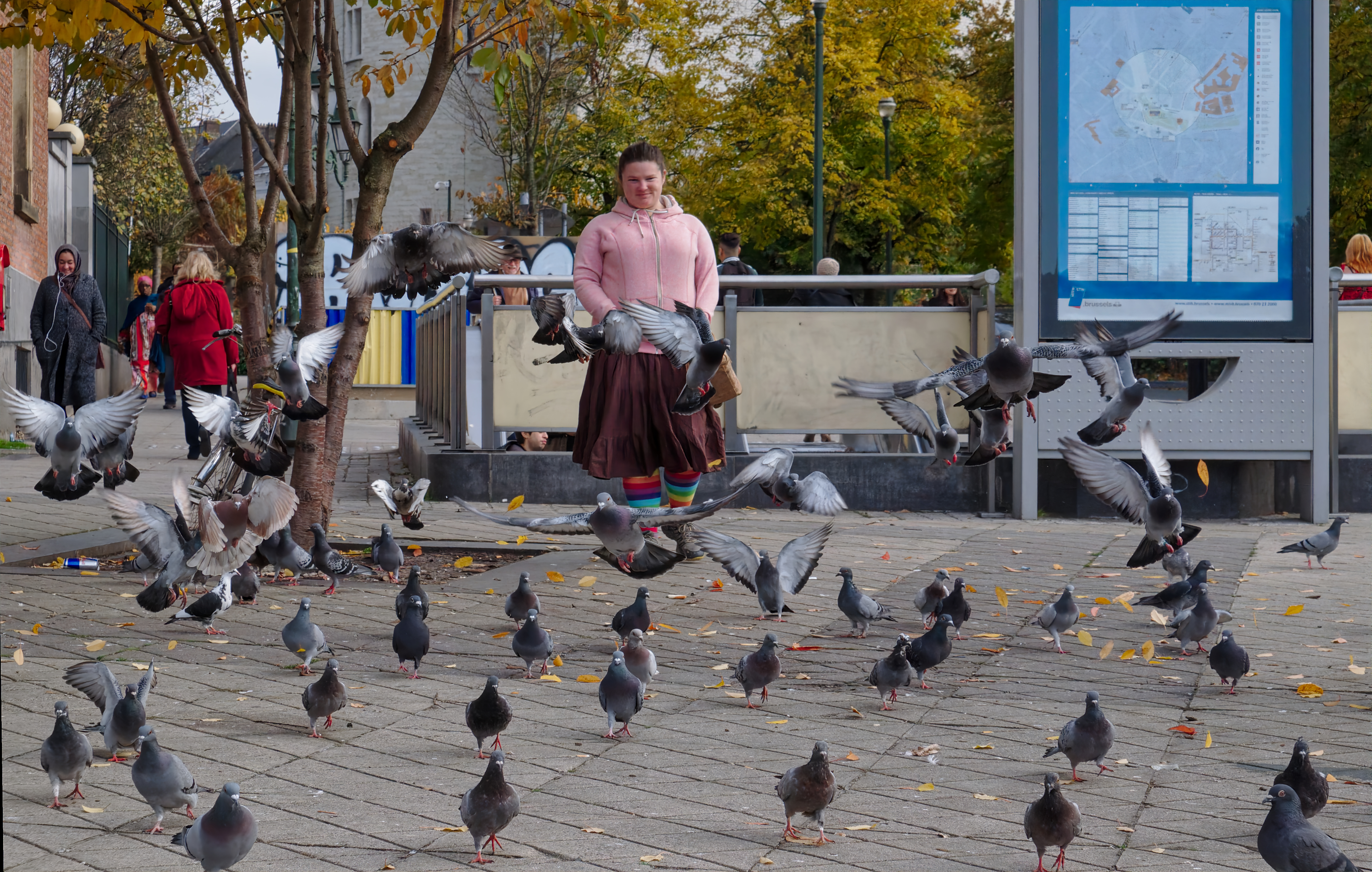 Feral pigeons flying in front of a pink human at Porte de Hal (Brussels). Image denoised using a UNet shaped deep neural network trained on the Natural Image Noise Dataset